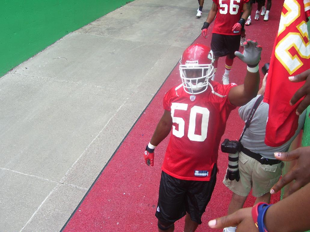 Napoleon Harris of the Kansas City Chiefs at a free mini camp open to the public.